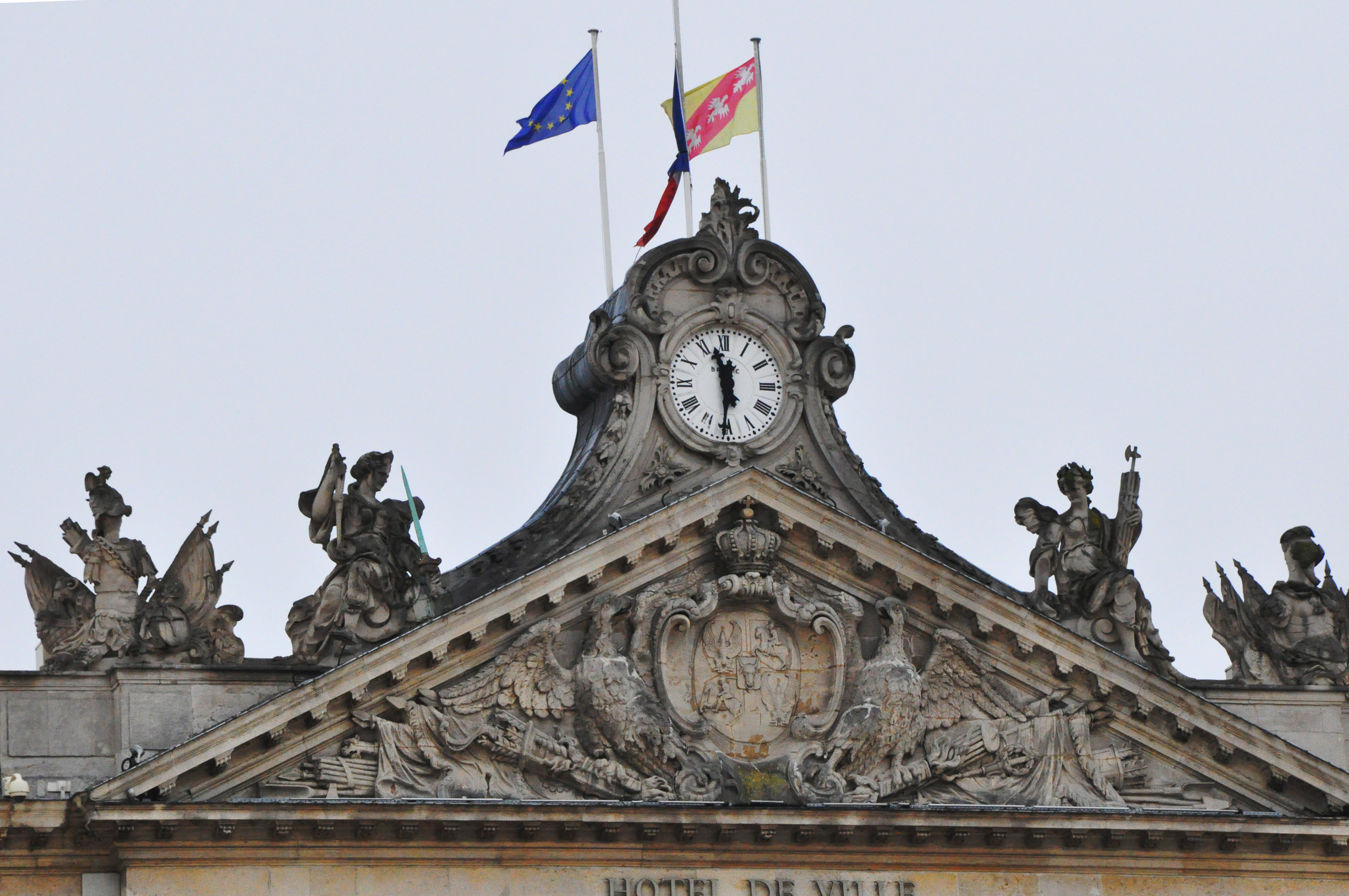 Town hall of Nancy (France)